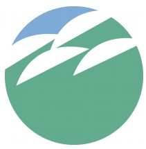 Inashiki Ibaraki chapter